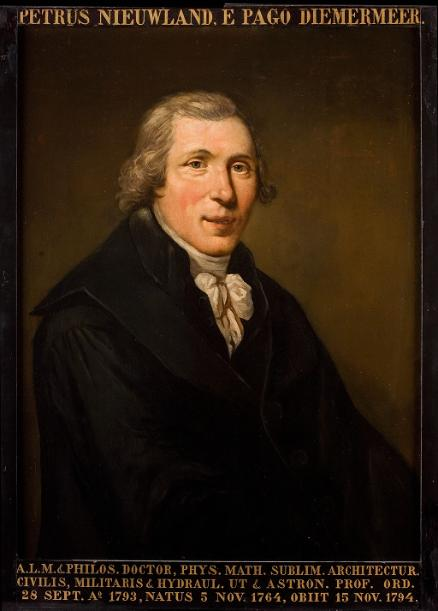 Official portrait of Leiden University professor Pieter Nieuwland (1764–1794), from the Leiden University Library's Special Collections